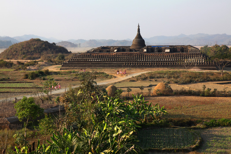 Khoe Thaung temple in Mrauk U